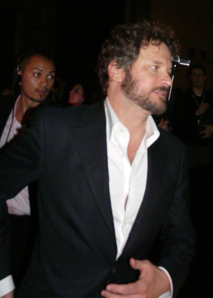 Actor Colin Firth B-Lines it to his SUV after the TIFF 08 premiere of Easy Virtue Check out even more Great photos and videos at